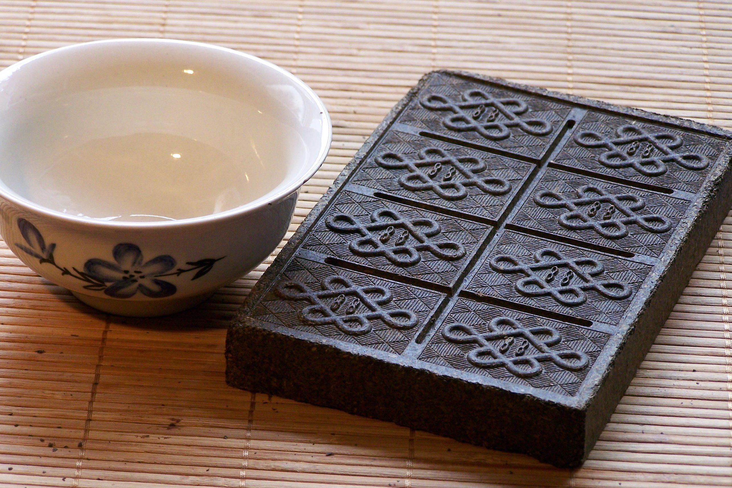 brick tea - Most tea bricks 'Zhuan Cha’ are from Southern Yunnan in China, and parts of Sichuan Province. Tea bricks are made primarily from the broad leaf 'Dayeh' Camellia Assamica tea plant. Tea leaves have been packed in wooden moulds and pressed into block form. A one pound brick which is scored on the back can be broken into eight smaller pieces.